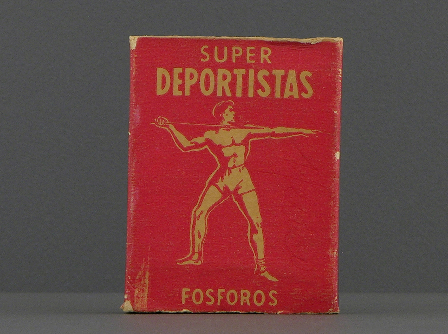 Super Deportistas matches cardboard container mid 20th century